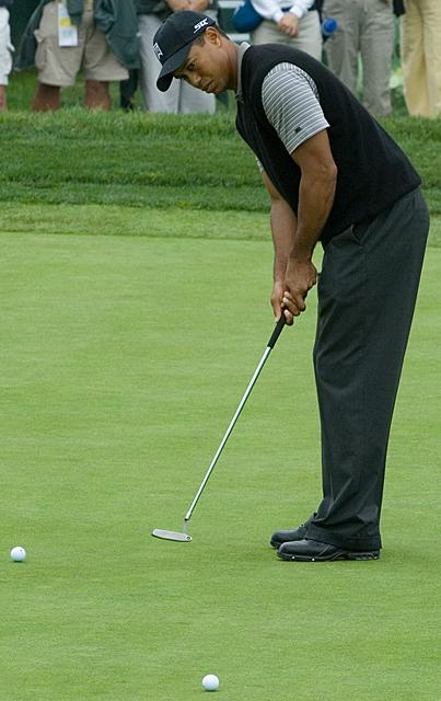 Tiger Woods putting on the 8th green at Torrey Pines during his morning practice round at the 108th U.S. Open in San Diego, CA.